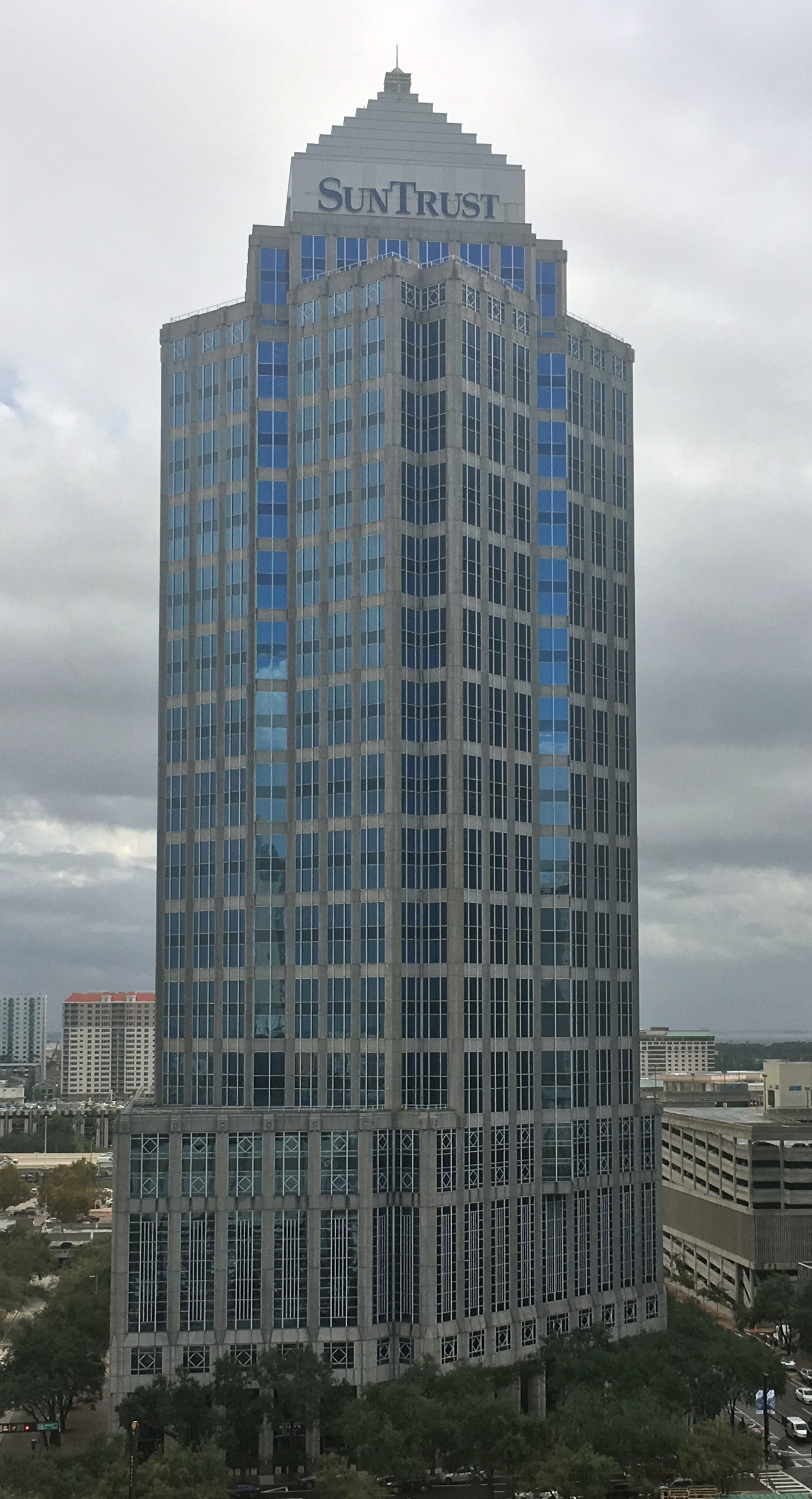 As viewed from the roof of the Madison Building